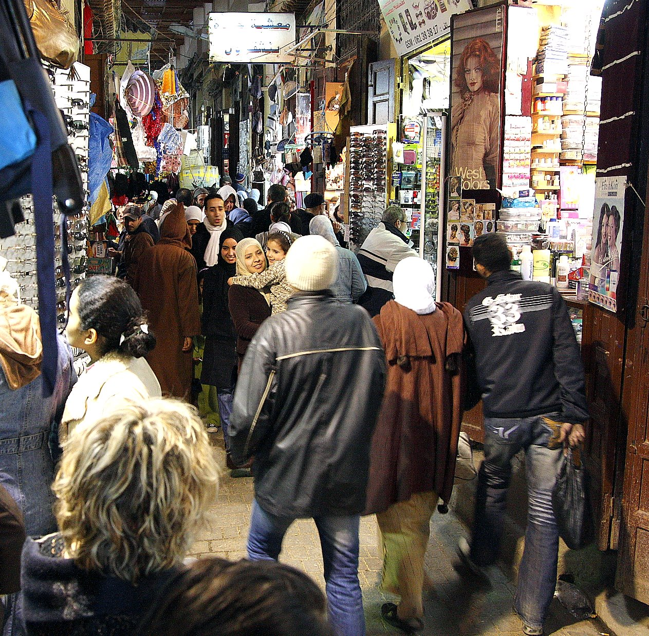 Médina de Fès, Marocco